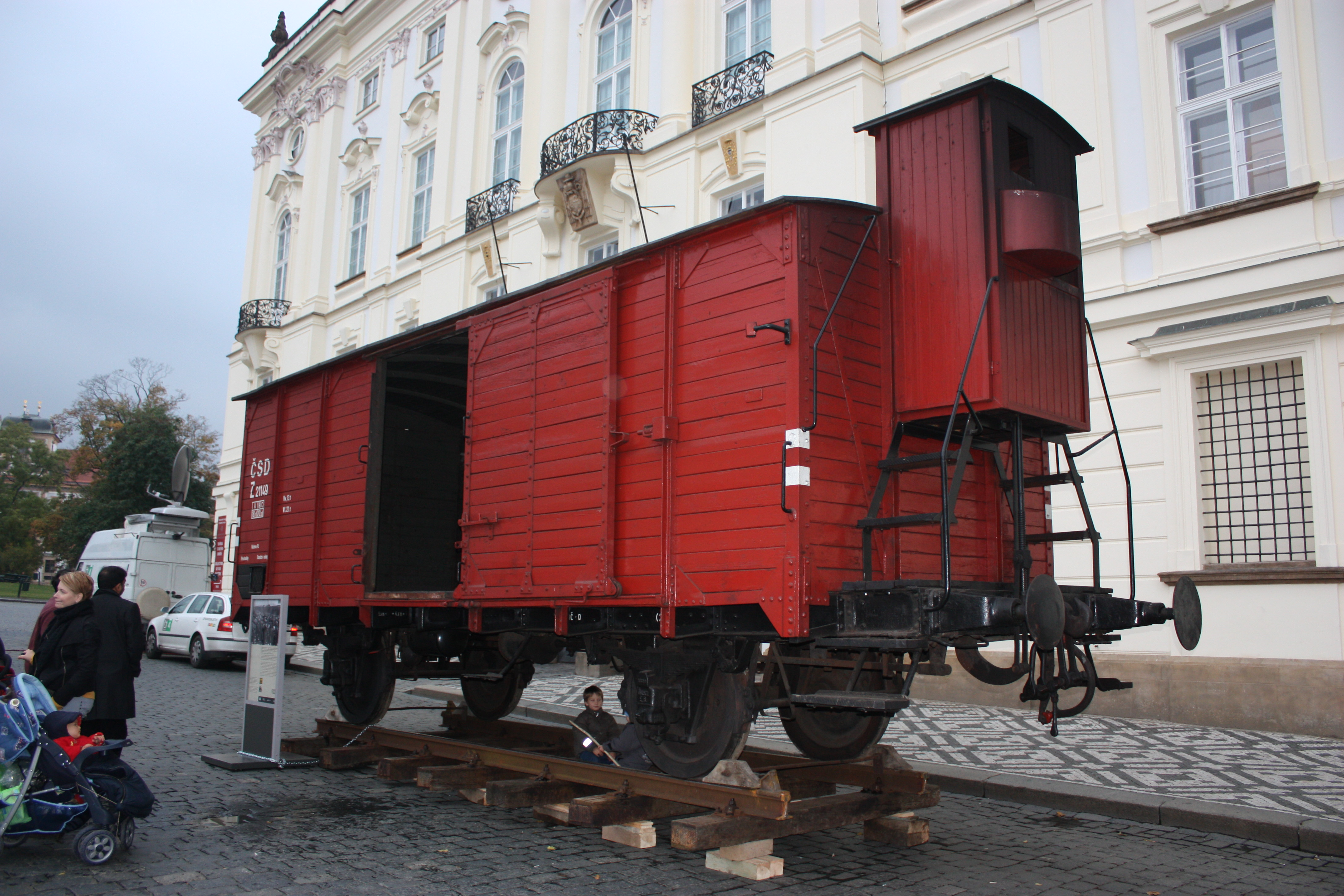 Hradčany Square at Hradčany, Prague. Open Air Exposition opening organised by Post Bellum Association.